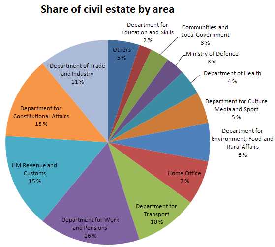 United Kingdom government civil estate by area. Based on data from Office of Government Commerce (OGC) High Performing Property Implementation Plan. In the UK, the Civil Estate is defined as workspace, offices and other property (land and buildings) used to deliver departments’ activities that is owned, leased, or occupied by a government body including non-ministerial departments, agencies, executive NDPBs Special Health Authorities in Great Britain. It does not include the operational NHS Estate, the Prisons Operational Estate, the Foreign Office Overseas Estate, the DEFRA Rural Estate, the privatised rail entities, public corporations or the defence estate (except for certain civil elements). Definition source: MANDATORY OGC GUIDANCE (Formerly DAO(GEN)07/06) COLLABORATIVE MANAGEMENT OF THE CIVIL ESTATE. By the Office of Government Commerce. 5 January 2009